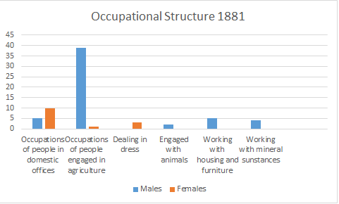 Occupations listed from 1881 males and females